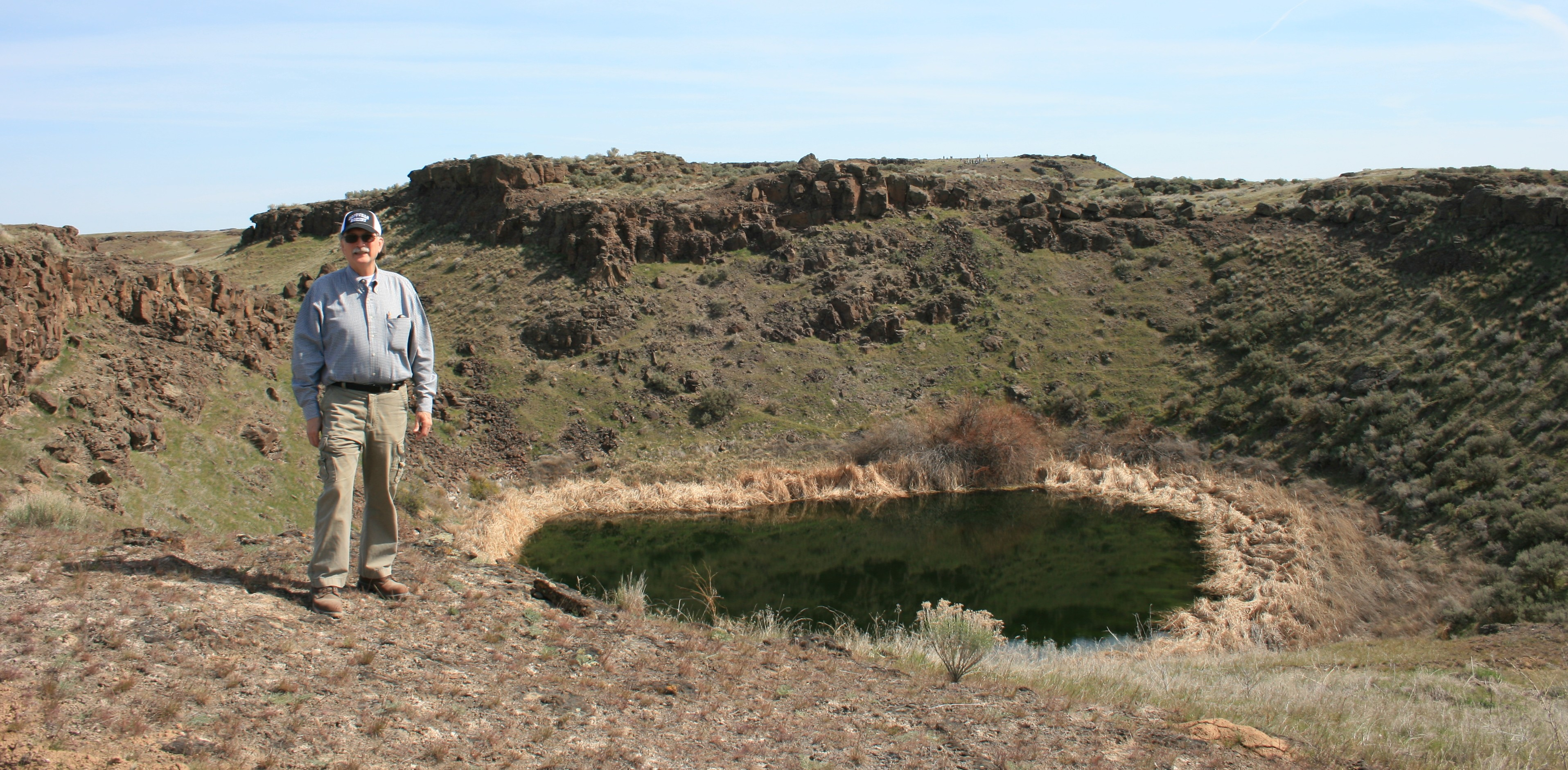 A kolk formed pothole in the Drumheller Channels National Natural Landmark. A kolk is an underwater vortex that is created when rapidly rushing water passes an underwater obstacle in boundary areas of high shear.